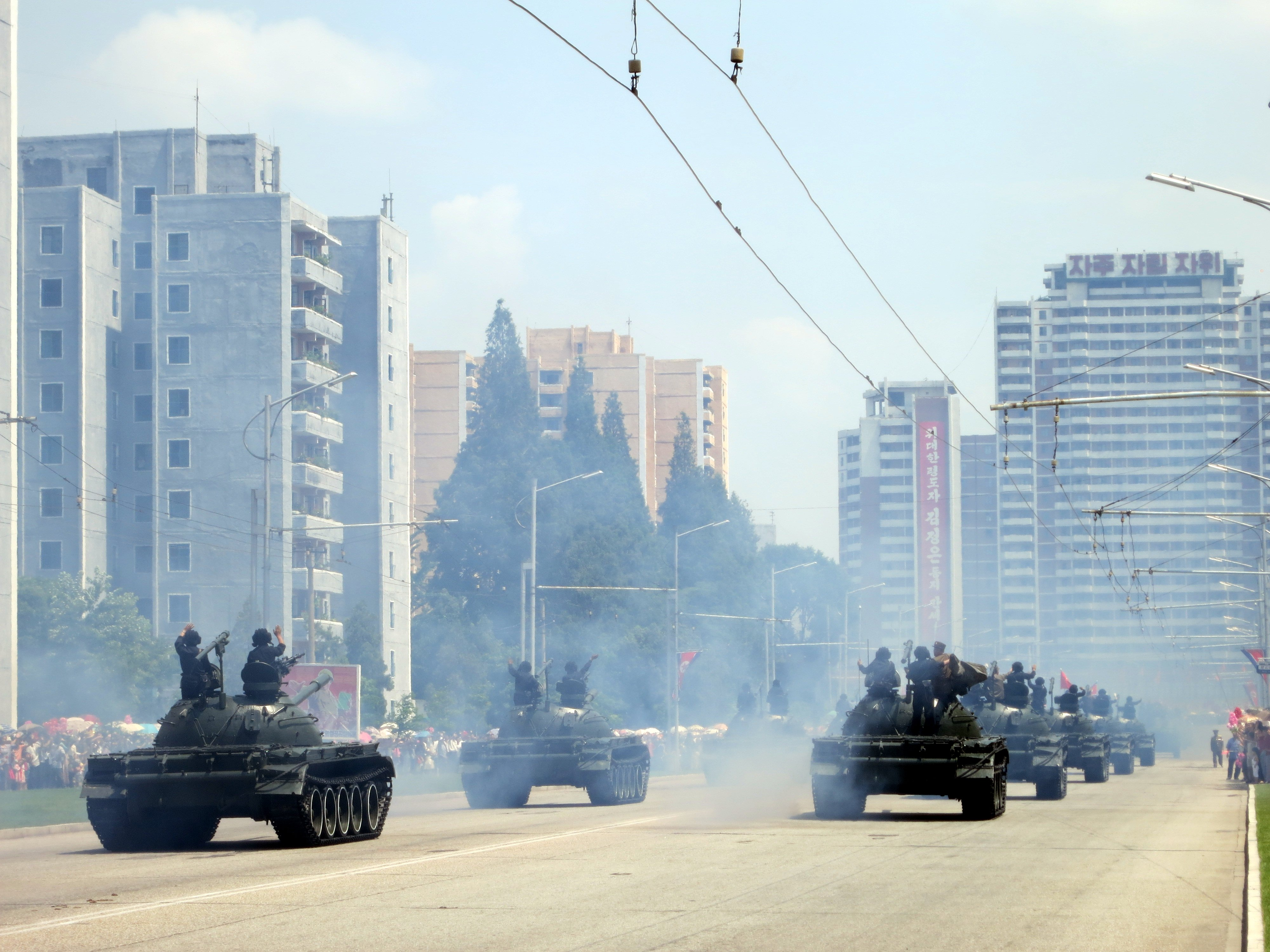 North Korea Victory Day 118